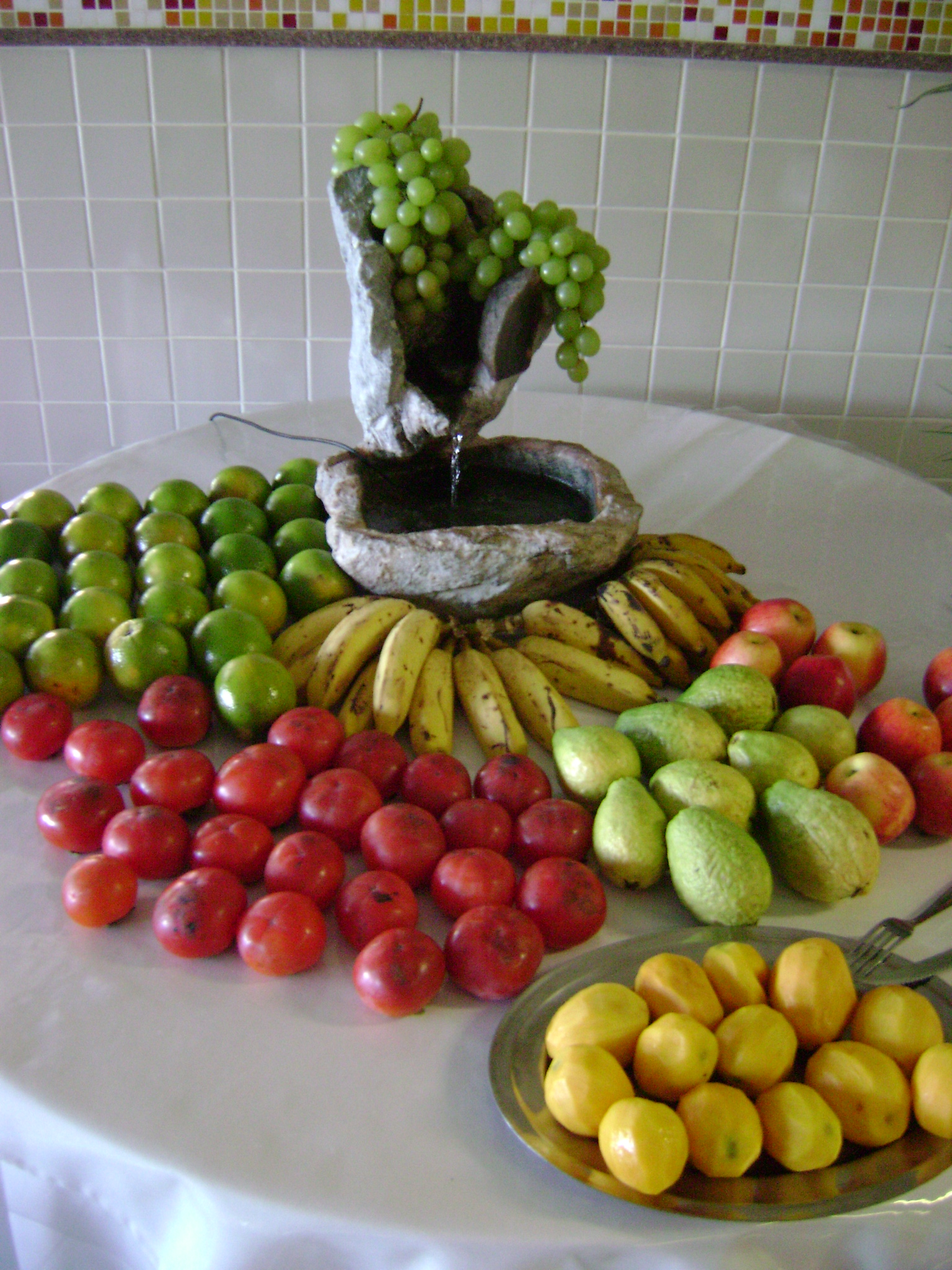 Fruits